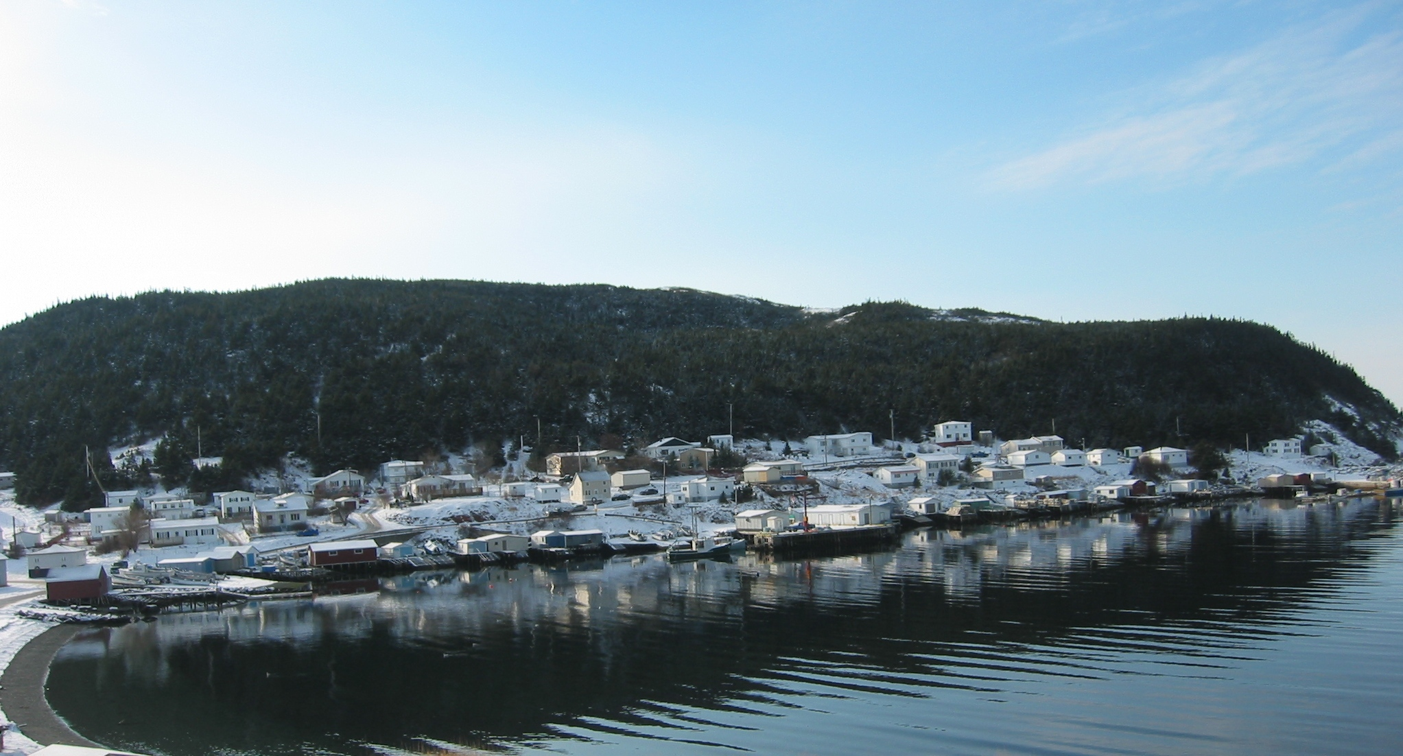 A shot of Bank Road in St. Bernard's-Jacques Fontaine, or simply called "The Bank" to locals. The government wharf, as well as some of the oldest houses in town are located on this street.